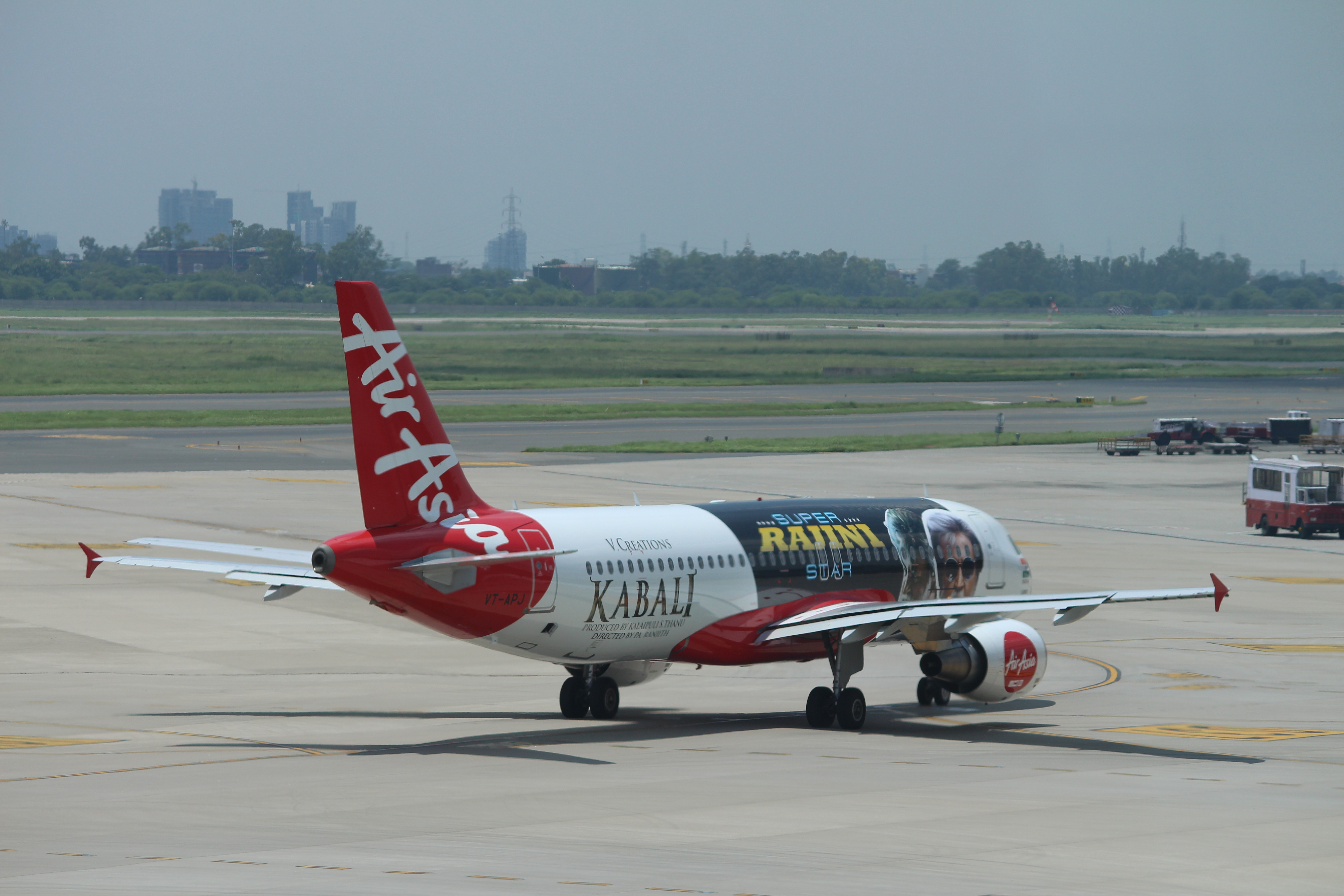 Air Asia's Kabali themed flight.